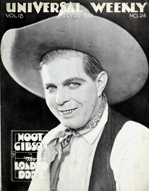 Still for the American western The Loaded Door (1922) with Hoot Gibson, used on the cover of the July 29, 1922 Universal Weekly.